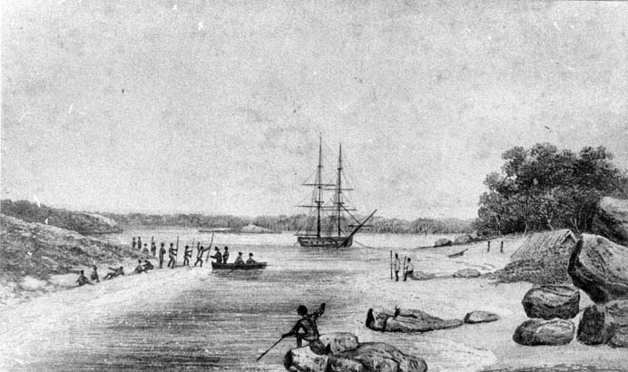 This image shows an engraving made from a sketch of Oyster Harbour made by Phillip Parker King in 1818.